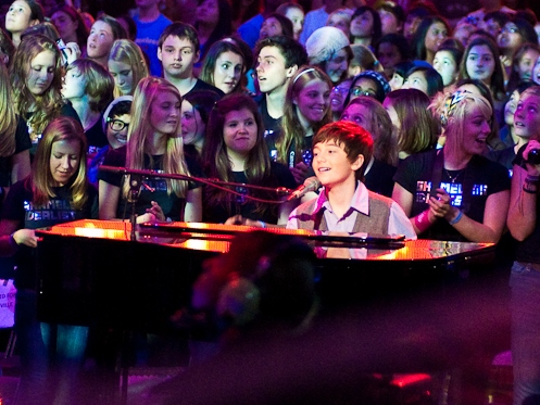 Greyson Chance performing "Fire" by Augustana on We Day, September 30, 2010 at the Air Canada Centre in Toronto, Canada.